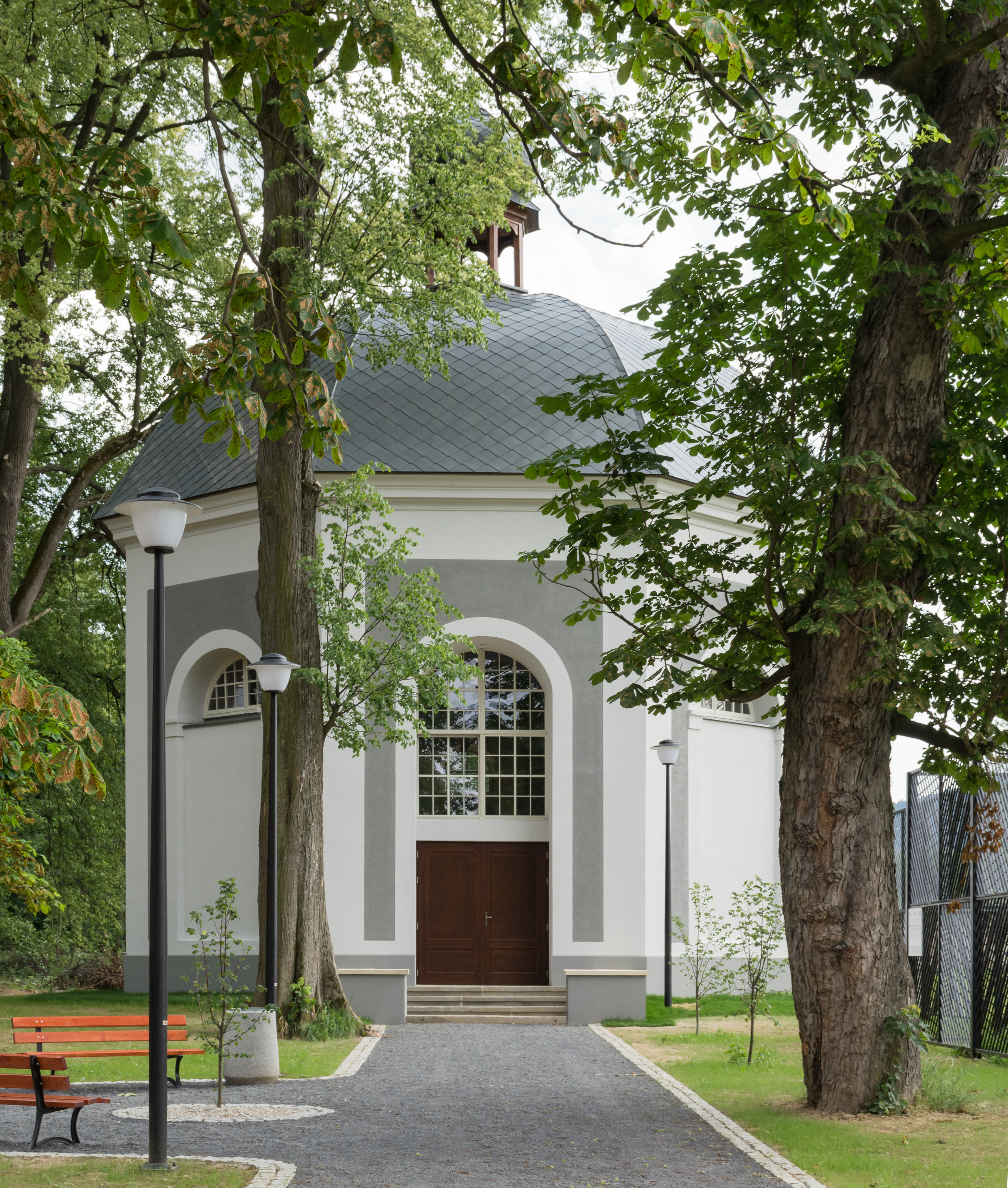 Saint Onuphrius chapel in Stronie Śląskie